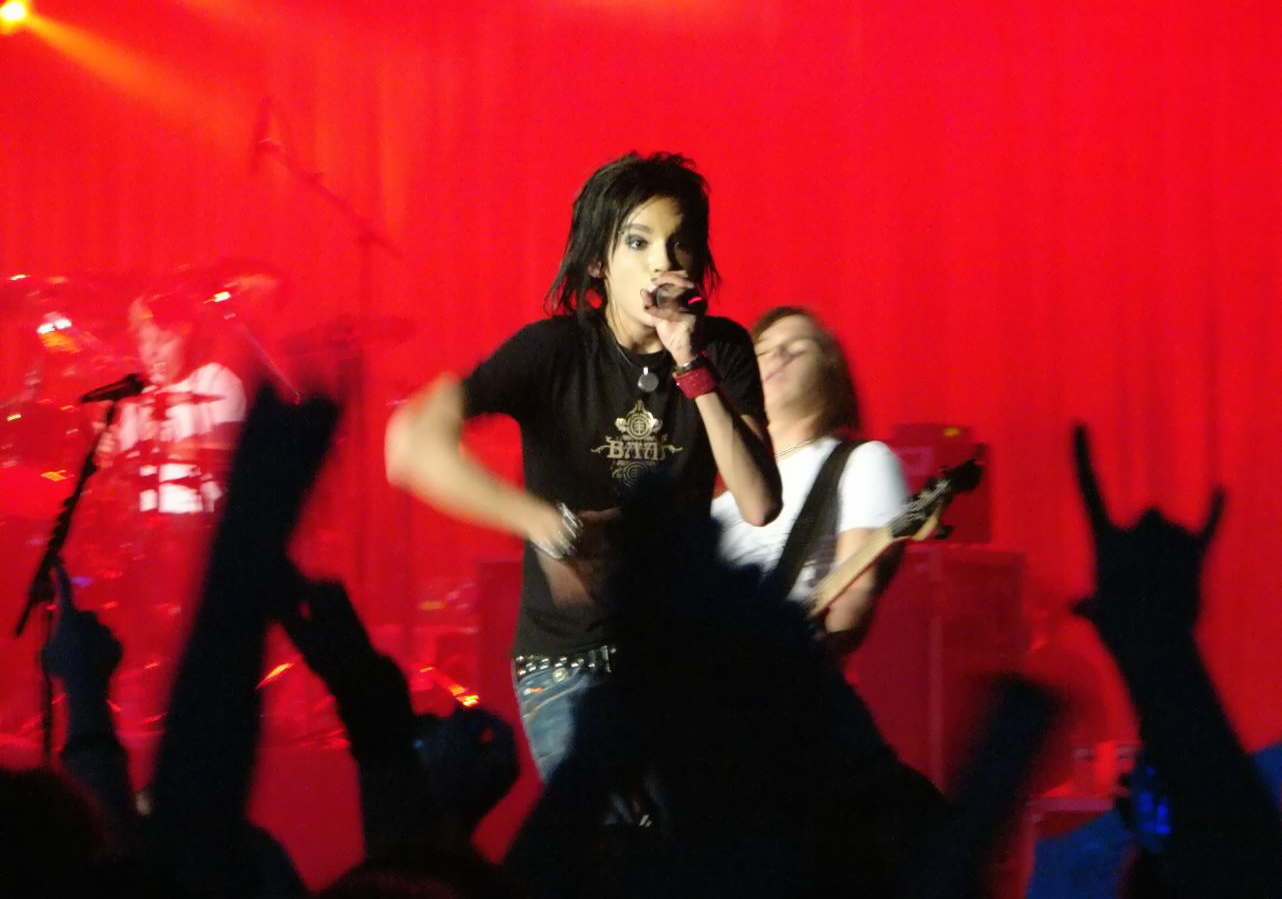 Bill Kaulitz from Tokio Hotel performing in Dietikon, Switzerland. © 2006 by Pascal Parvex